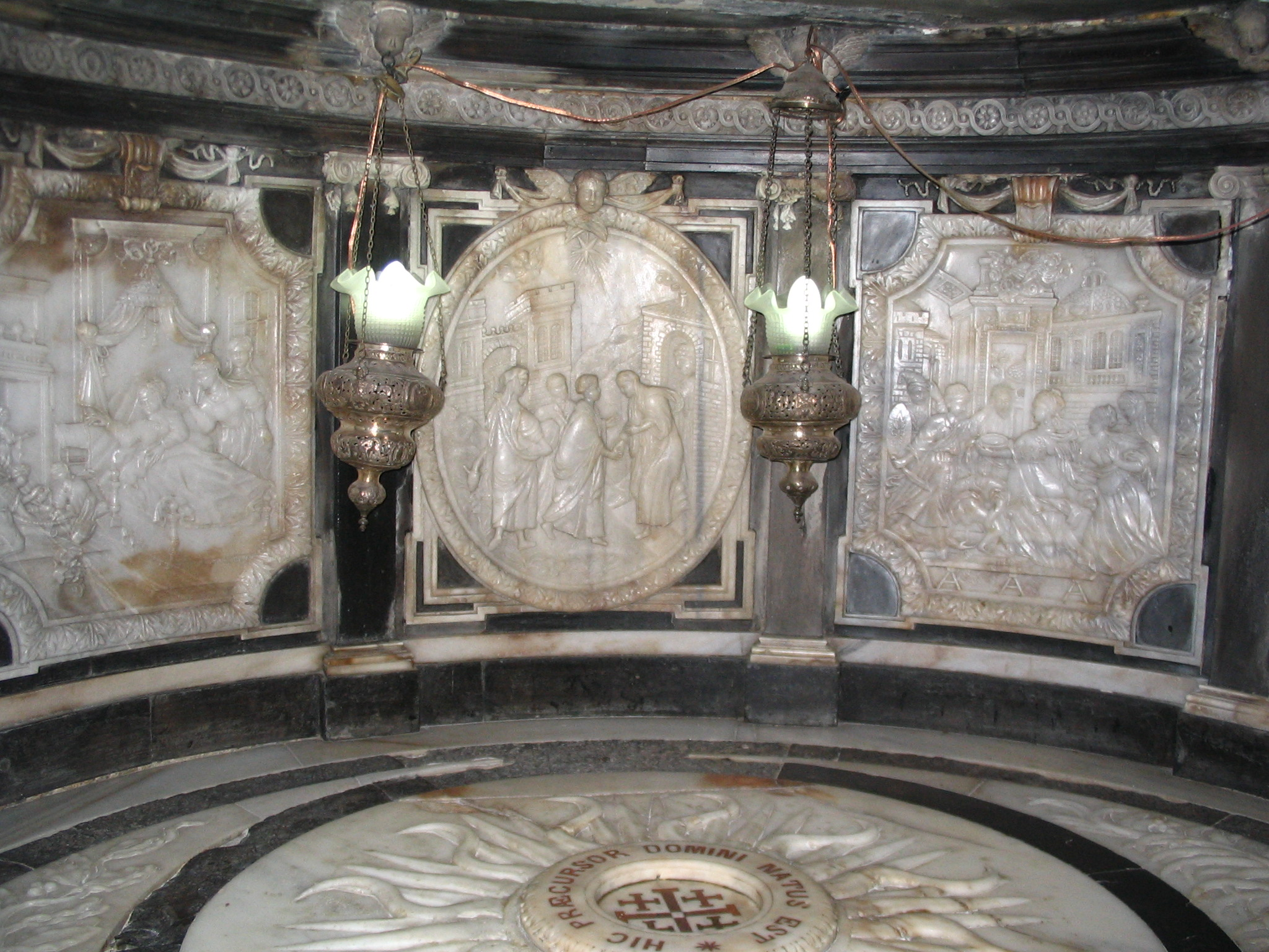 Ein Kerem, St John ba Harim